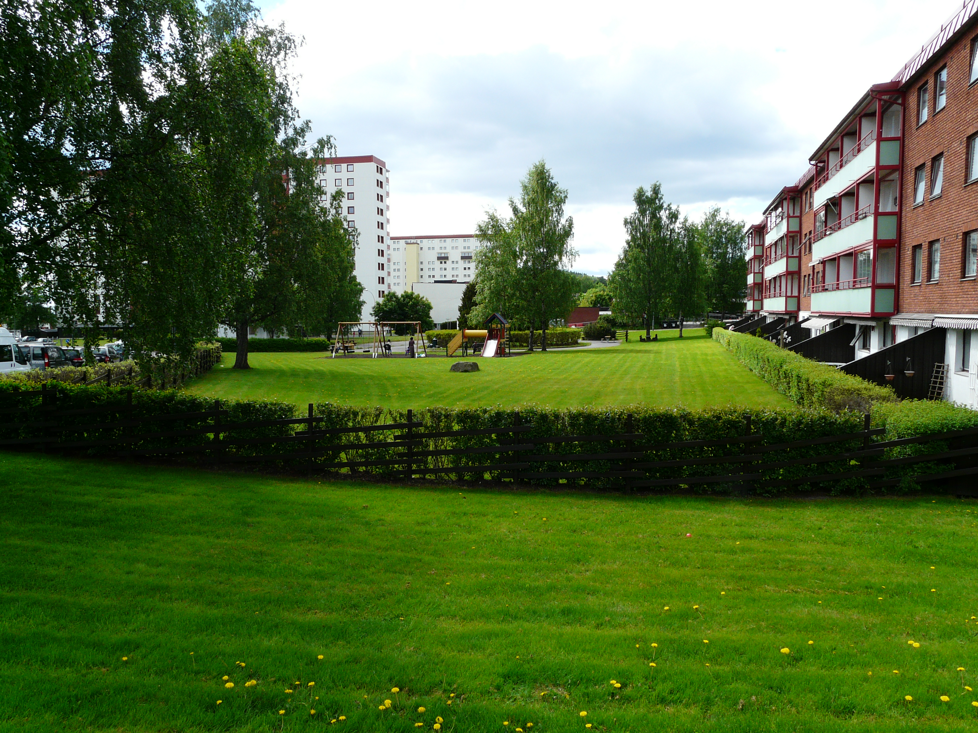 Summer in a suburbian neighbourhood, Oslo. 2013.